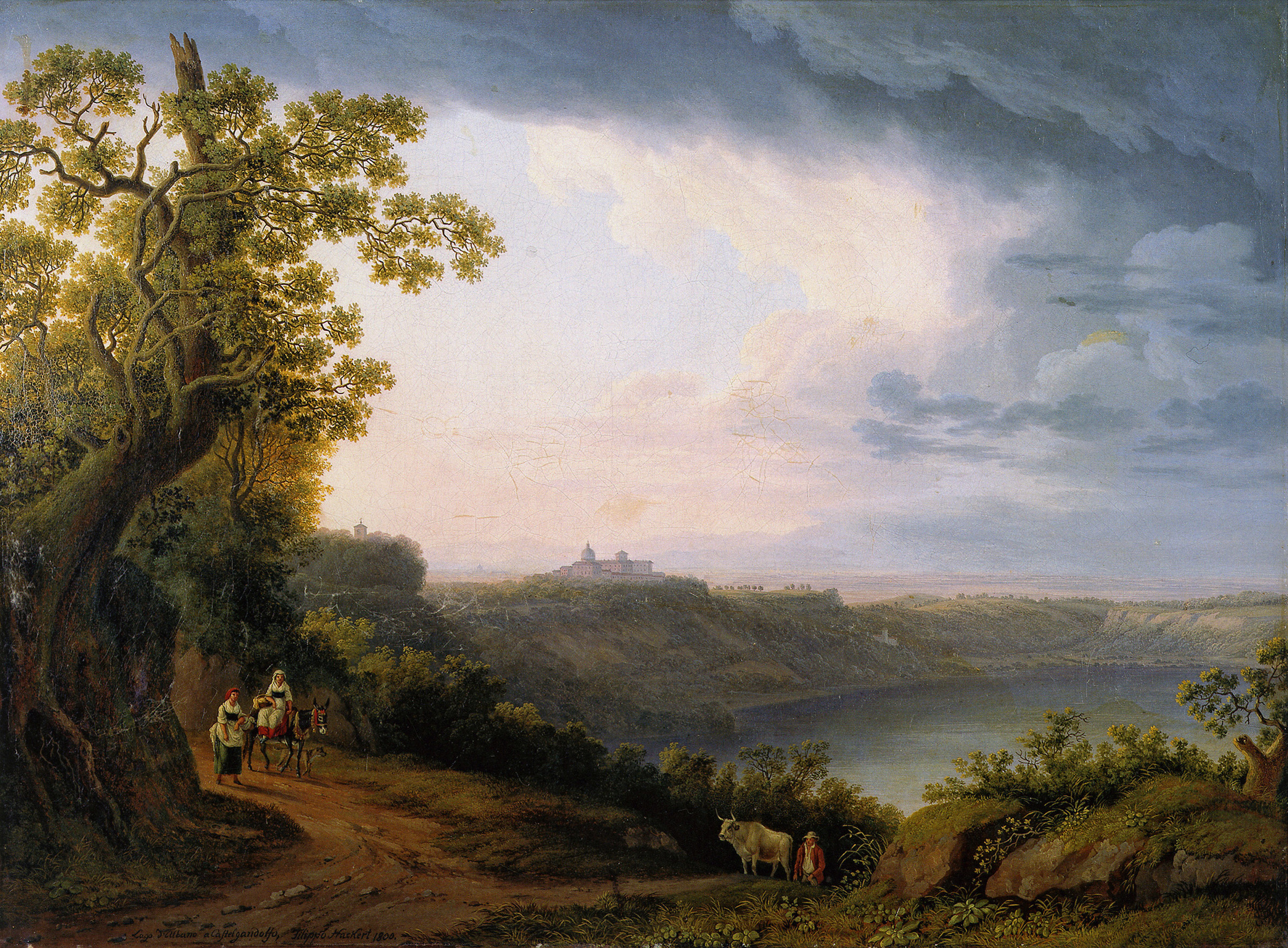 Jakob Philipp Hackert, View of Lake Albano with Castel Gandolfo (1800), oil on canvas, 65 x 88 cm, Düsseldorf, museum kunst palast.